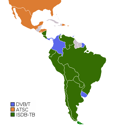 Digital Television in Latin America and Caribbean